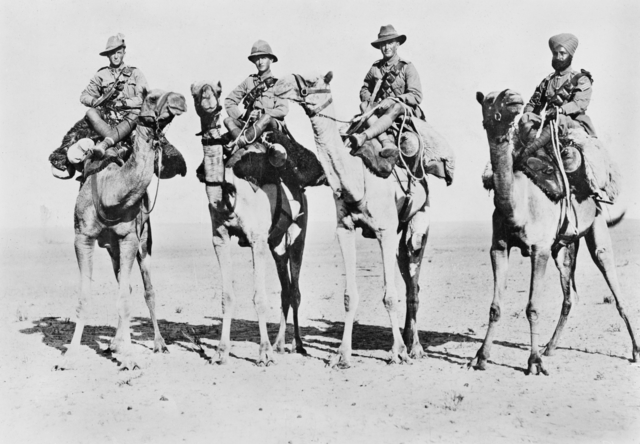 Australian, English, New Zealand and Indian types of the camelier which operated in conjunction with the Australian Light Horse in Palestine during World War I.